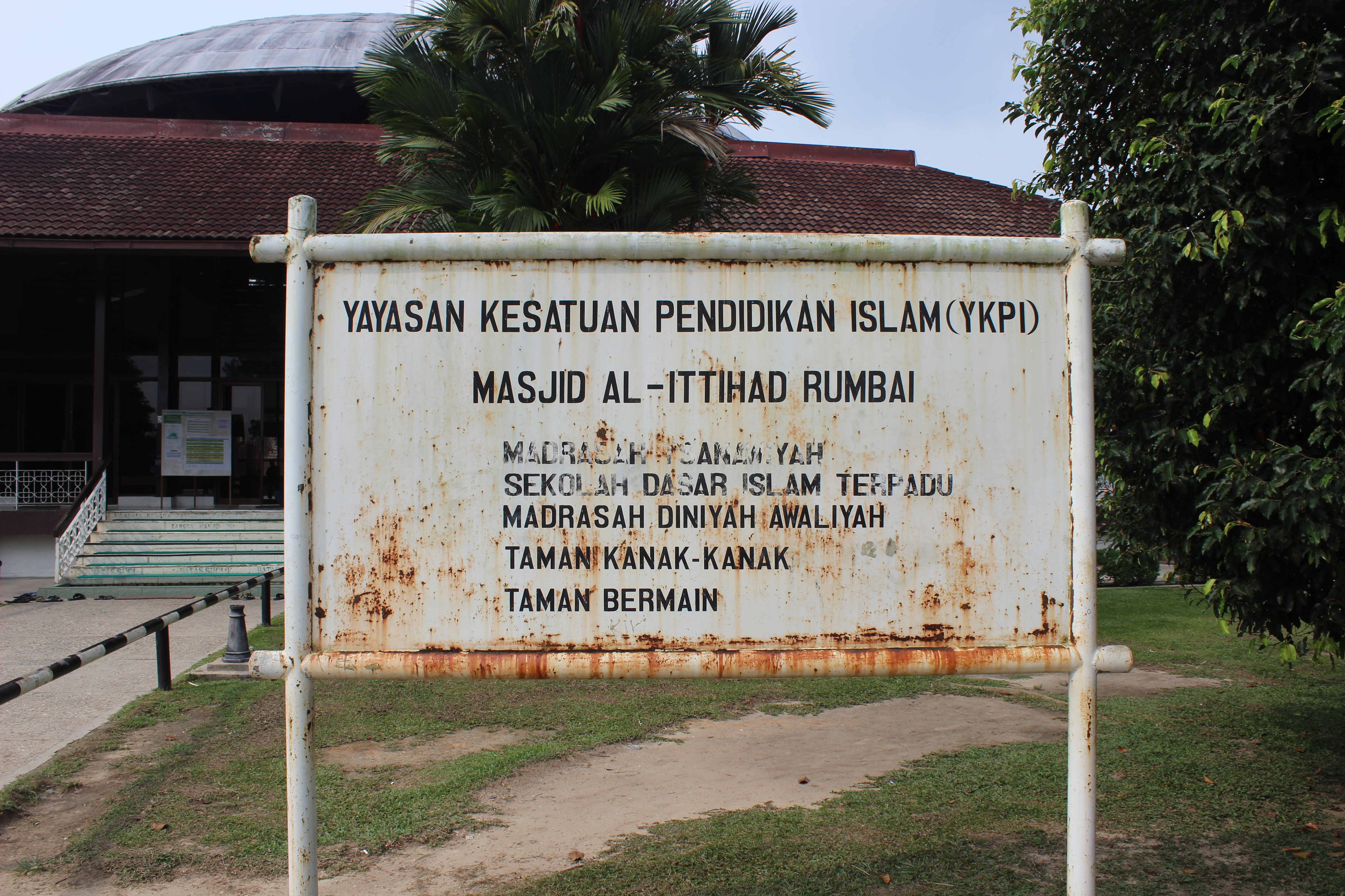 Al-Ittihad schools and mosque, Rumbai, Pekanbaru